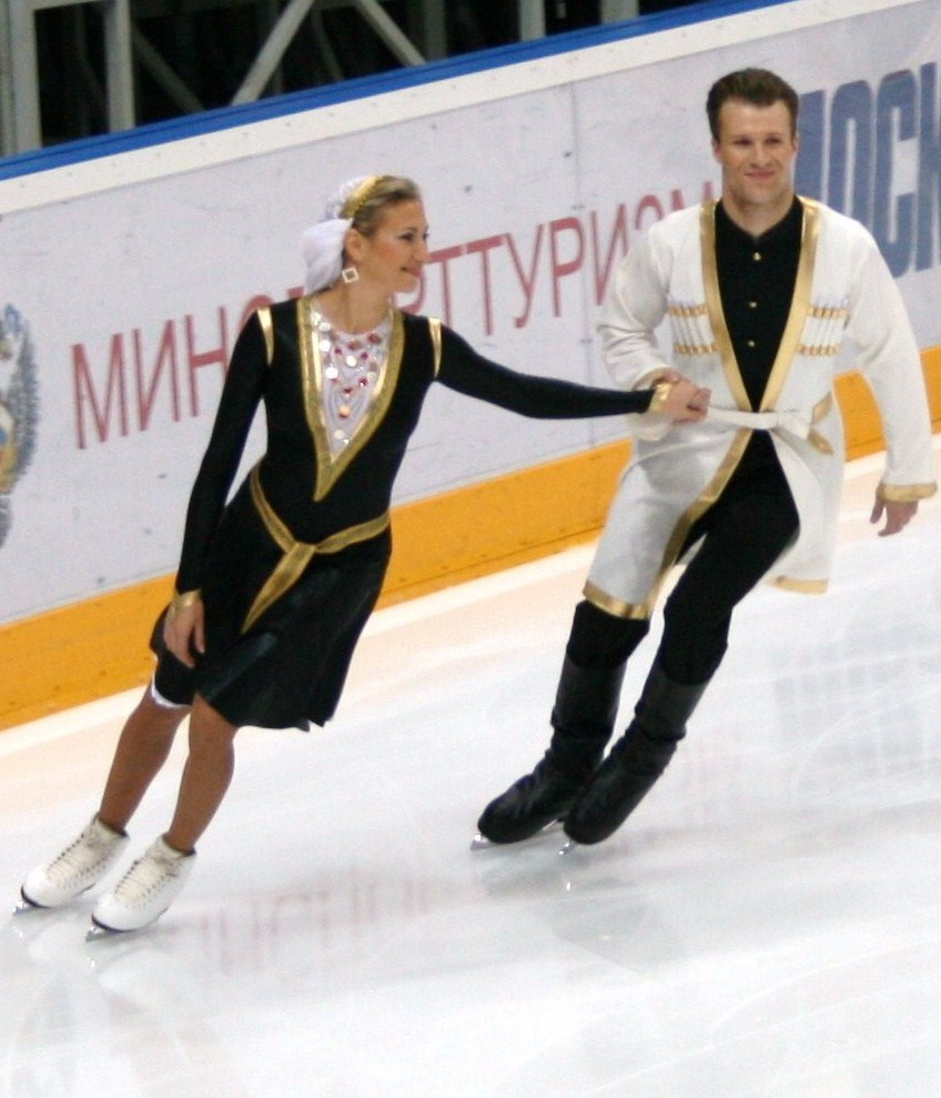 Anastasia Platonova and Alexander Grachev at the 2009 Rostelecom Cup. Original dance - folk